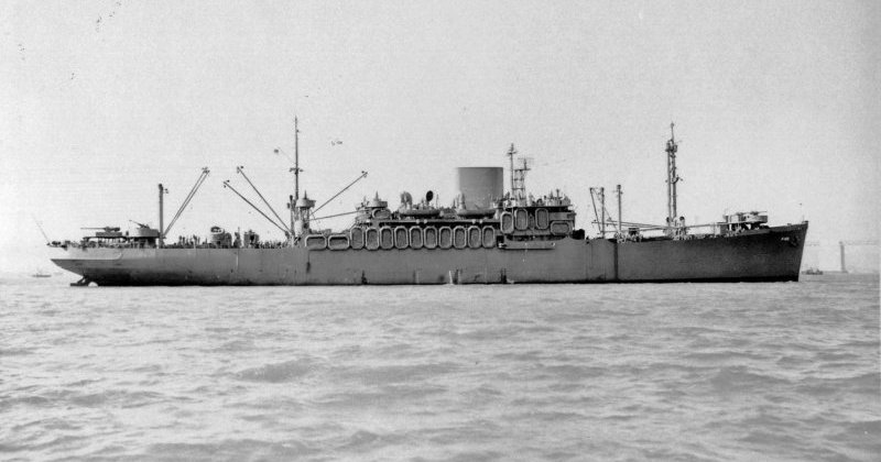 Broadside view of USS George F. Elliott (AP-105) off San Francisco, 7 February 1944.